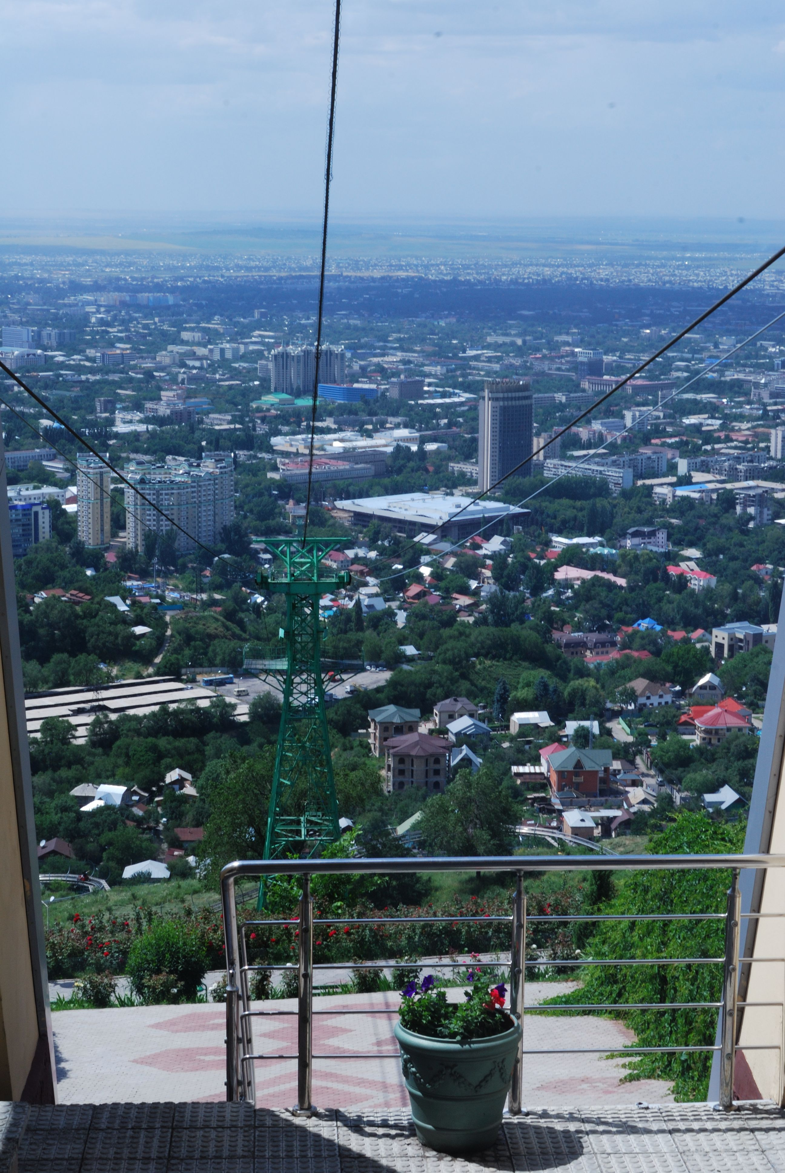 Almaty from Kok Tobe as seen from the Cableway station